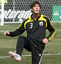 Brad Evans of the Columbus Crew photographed at the game that took place at Columbus Crew Stadium, on March 29, 2008 vs Toronto FC.